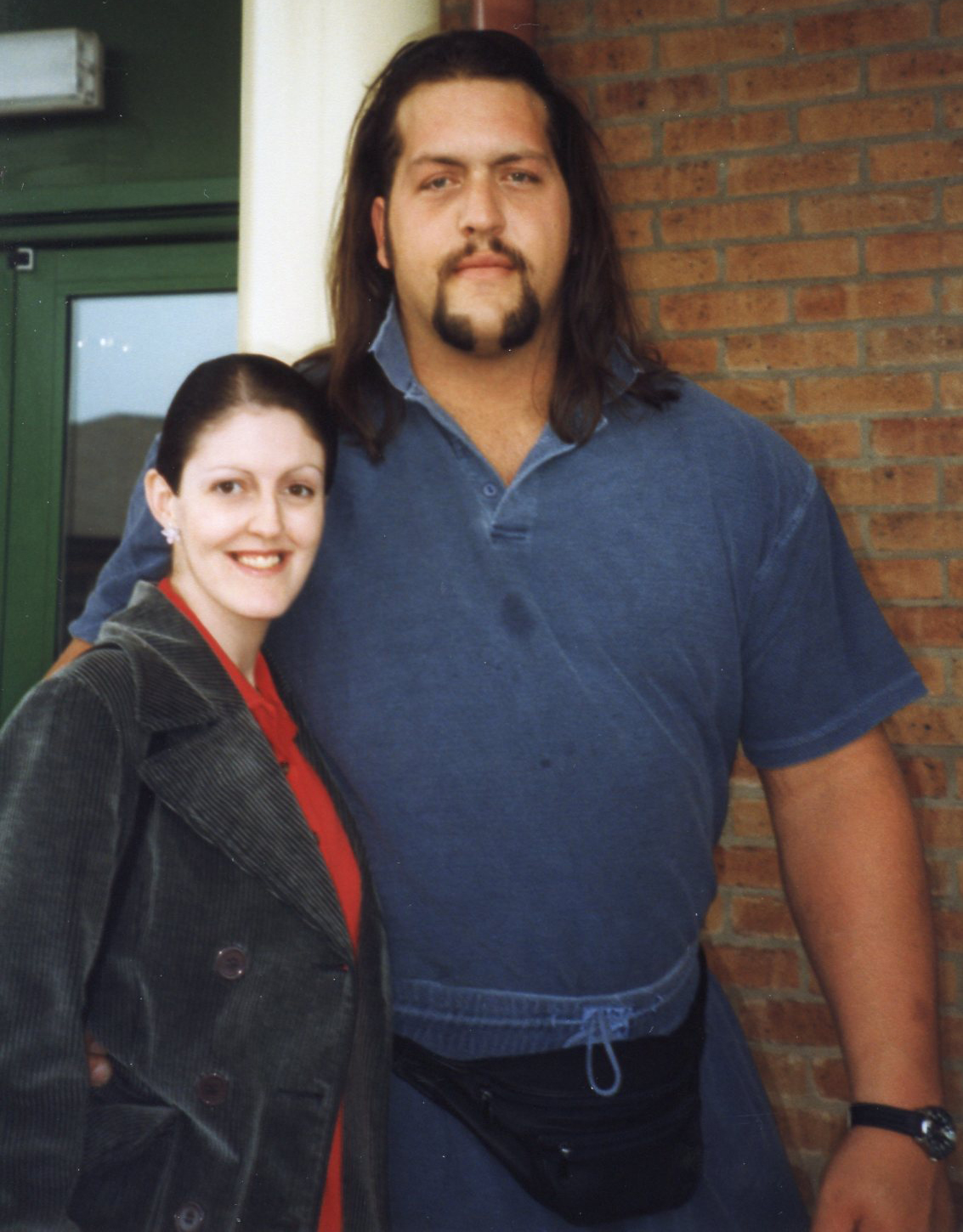 The Big Show takes photographs with a fan in Sheffield, England during a WWF tour. Taken April 2, 1999.